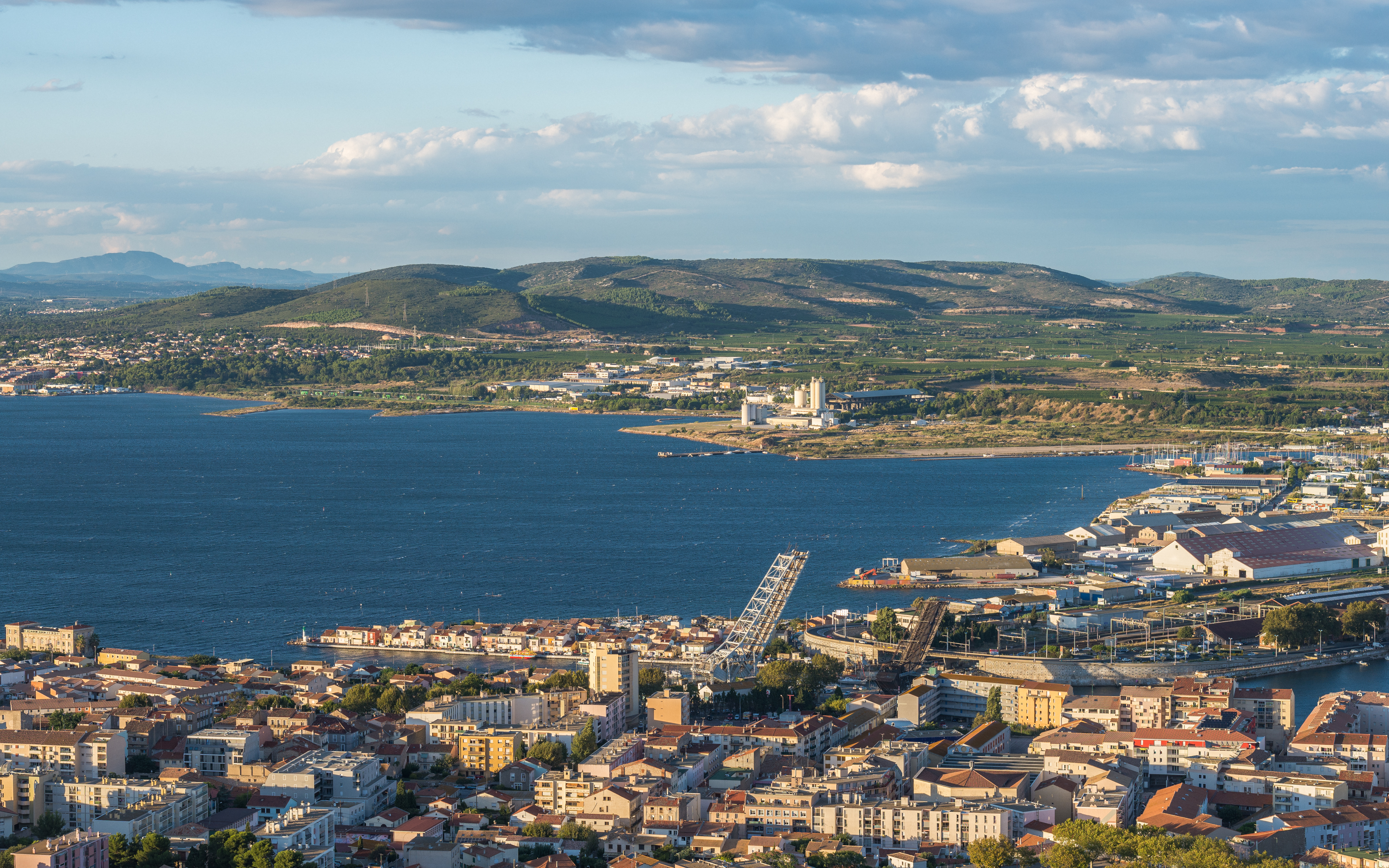 The Eastern end of the Étang de Thau from the Mount Saint-Clair in Sète, Hérault, France. In the foreground, a part of the town of Sète with the Pointe Courte Neighbourhood, the Maréchal Foch and Sadi-Carnot Bridges (the both are bascule bridges, here in open positions) over the Canal of Sète, and the train station. In background, at right a part of the commune of Frontignan, at left a part of the commune of Balaruc-les-Bains and behind the both the La Gardiole Mountain.